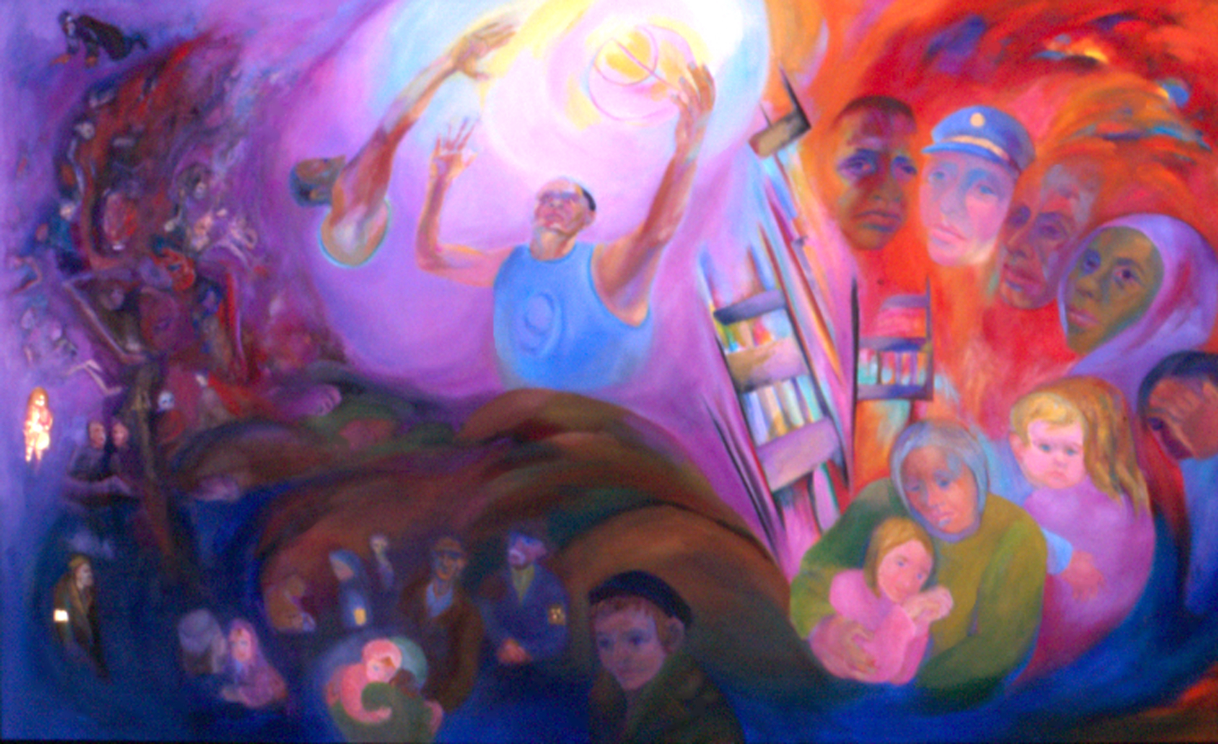 The Striving - 9 11 and History, by Berta Rosenbaum Golahny, oil on canvas, 2003, 60" x 32"